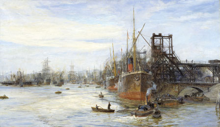 Barry Docks, South Wales